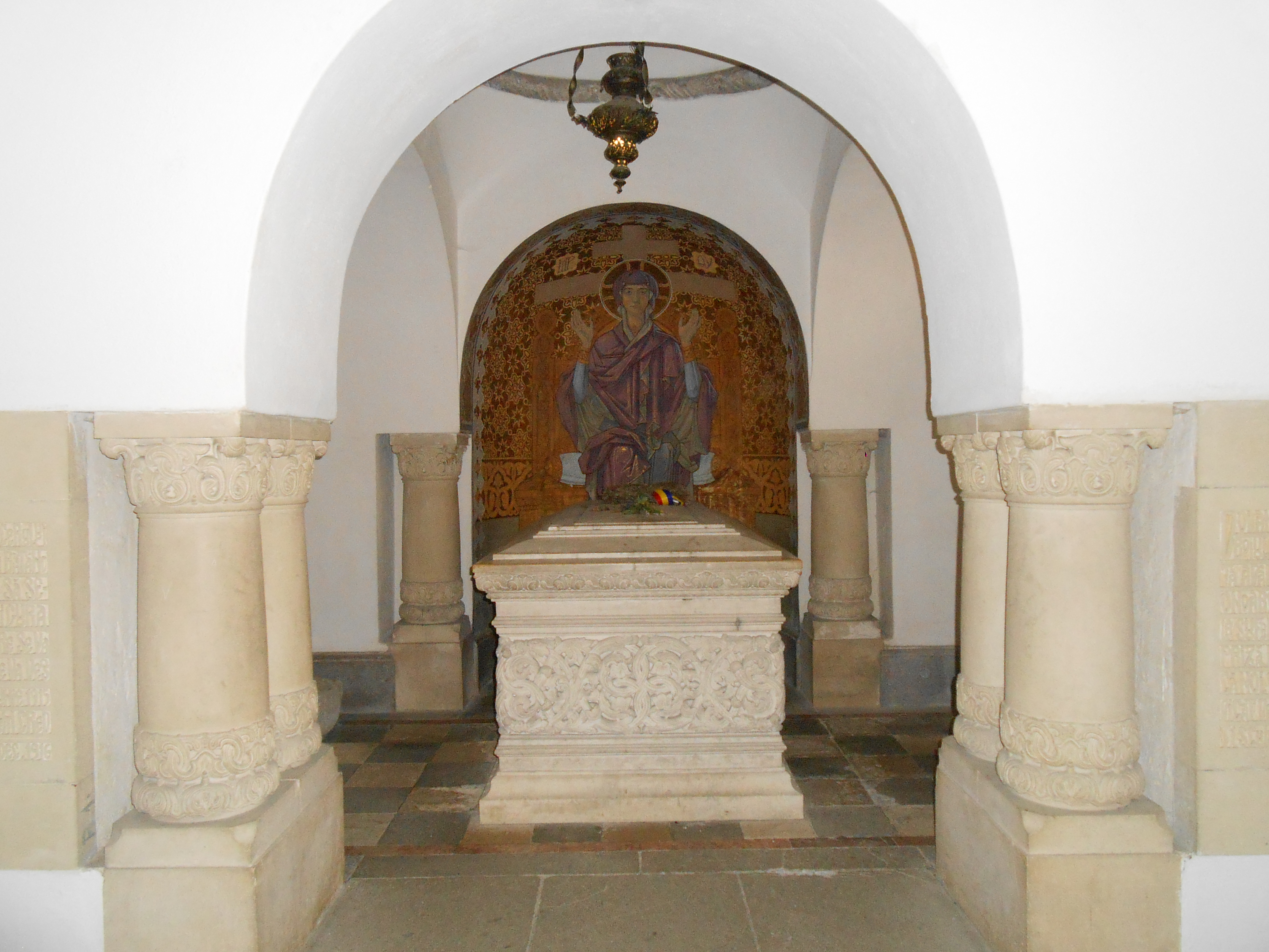 tumb of Take Ionescu, Sinaia monastery, Romania